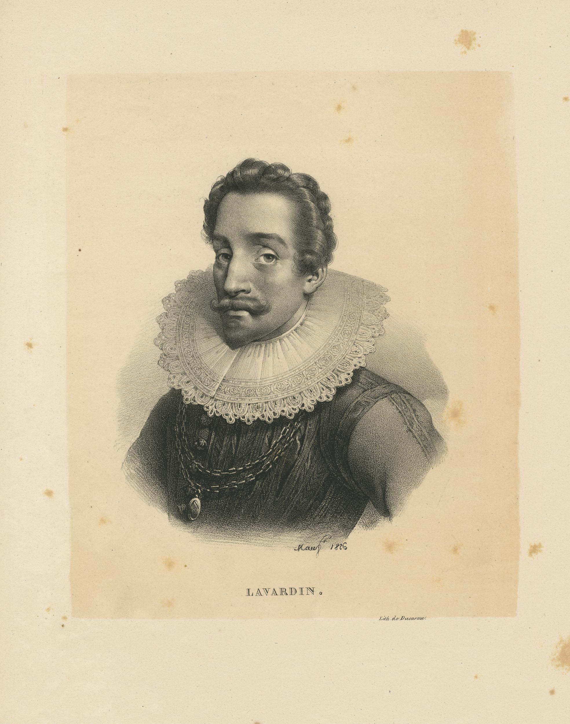 Portrait of Jean de Beaumanoir, Marquis de Lavardin, bust directed to left, glancing towards viewer, wearing ruff, doublet, and a medallion around the neck; illustration from "La Henriade, poeme de Voltaire" (Paris: Dubois, 1825). 1826 Lithograph with tint stone